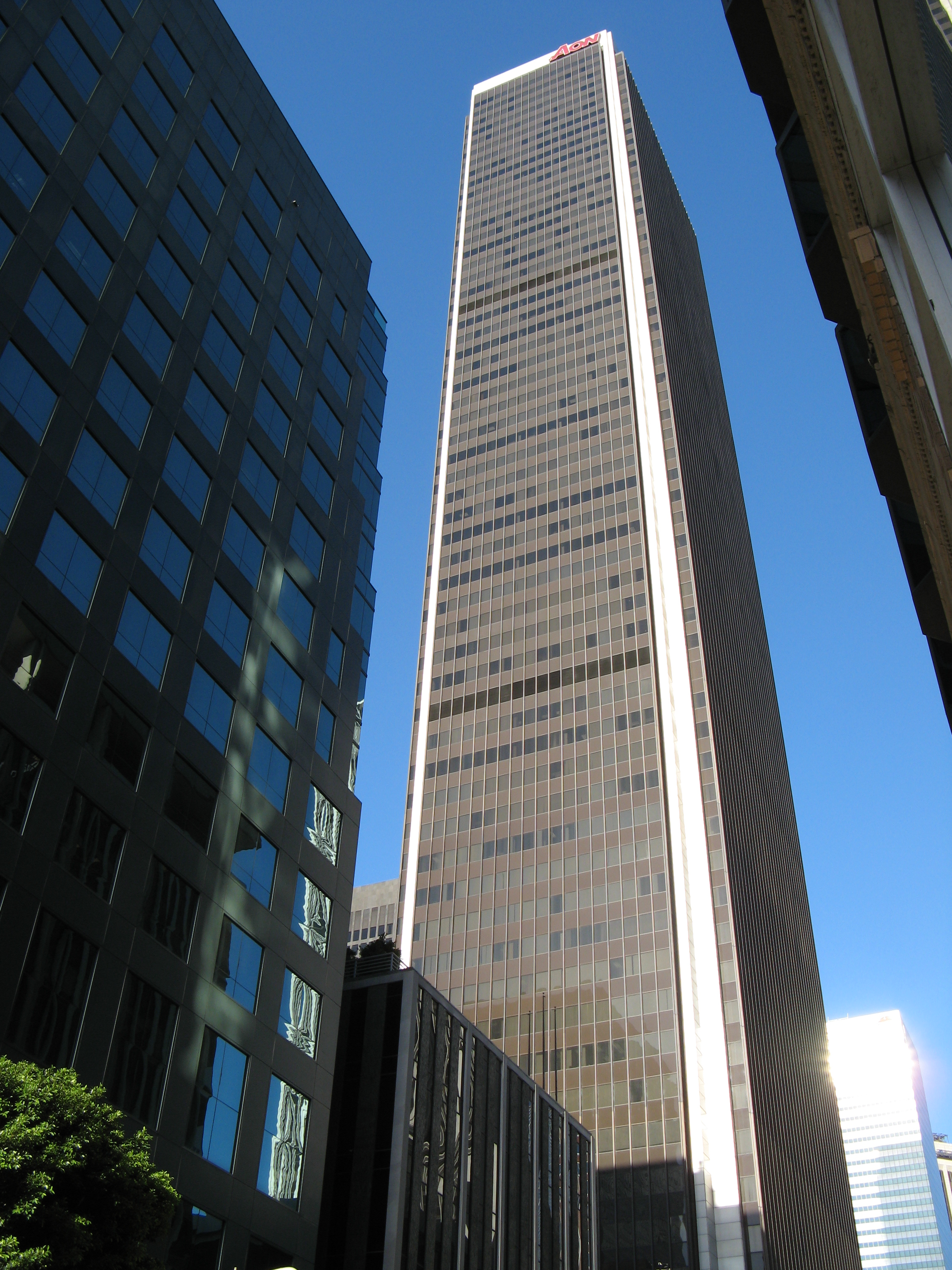 Aon Center (Los Angeles), the view was taken from Hope Street. Photographed and uploaded by user:Geographer.